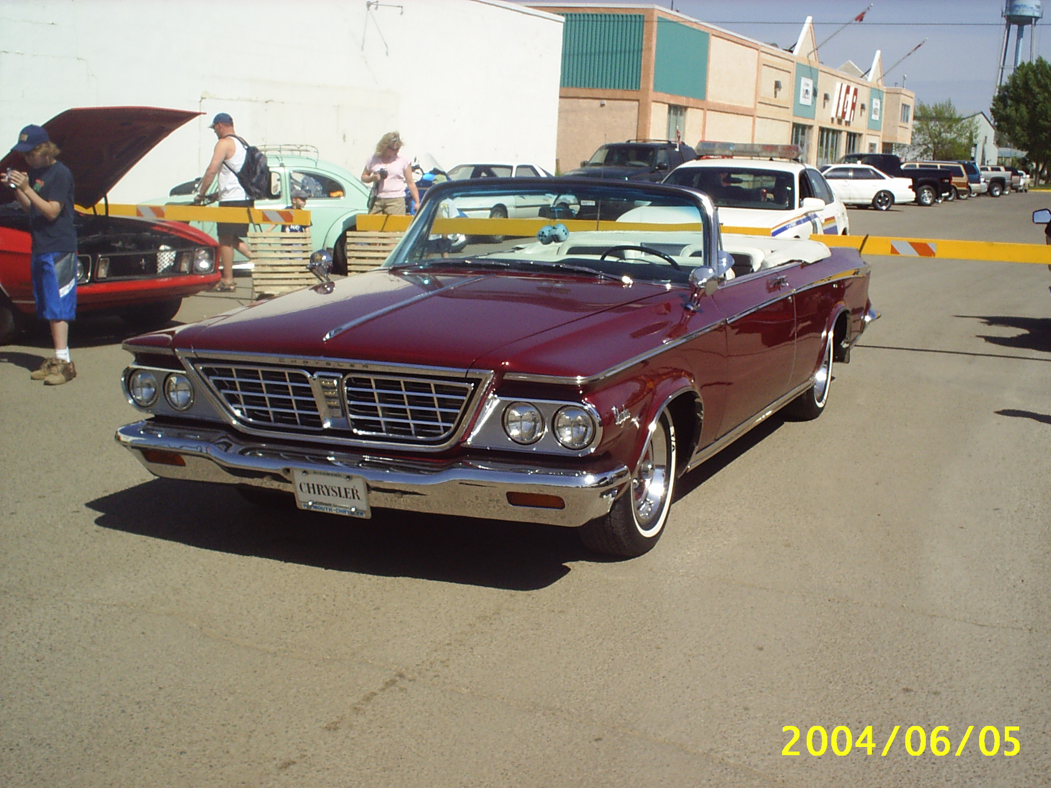 1964 Chrysler Newport (note: the grill is 1963 New Yorker, but headlamps are 1964 model)